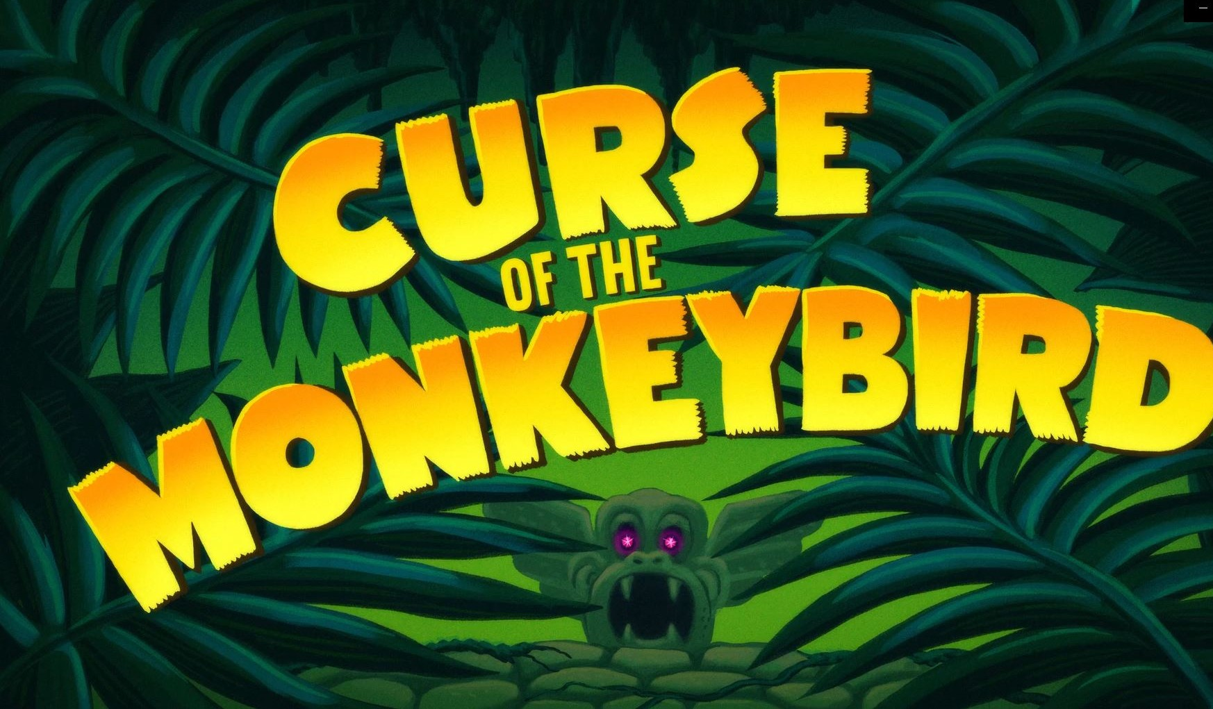 Logo for short "Curse of the Monkeybird"